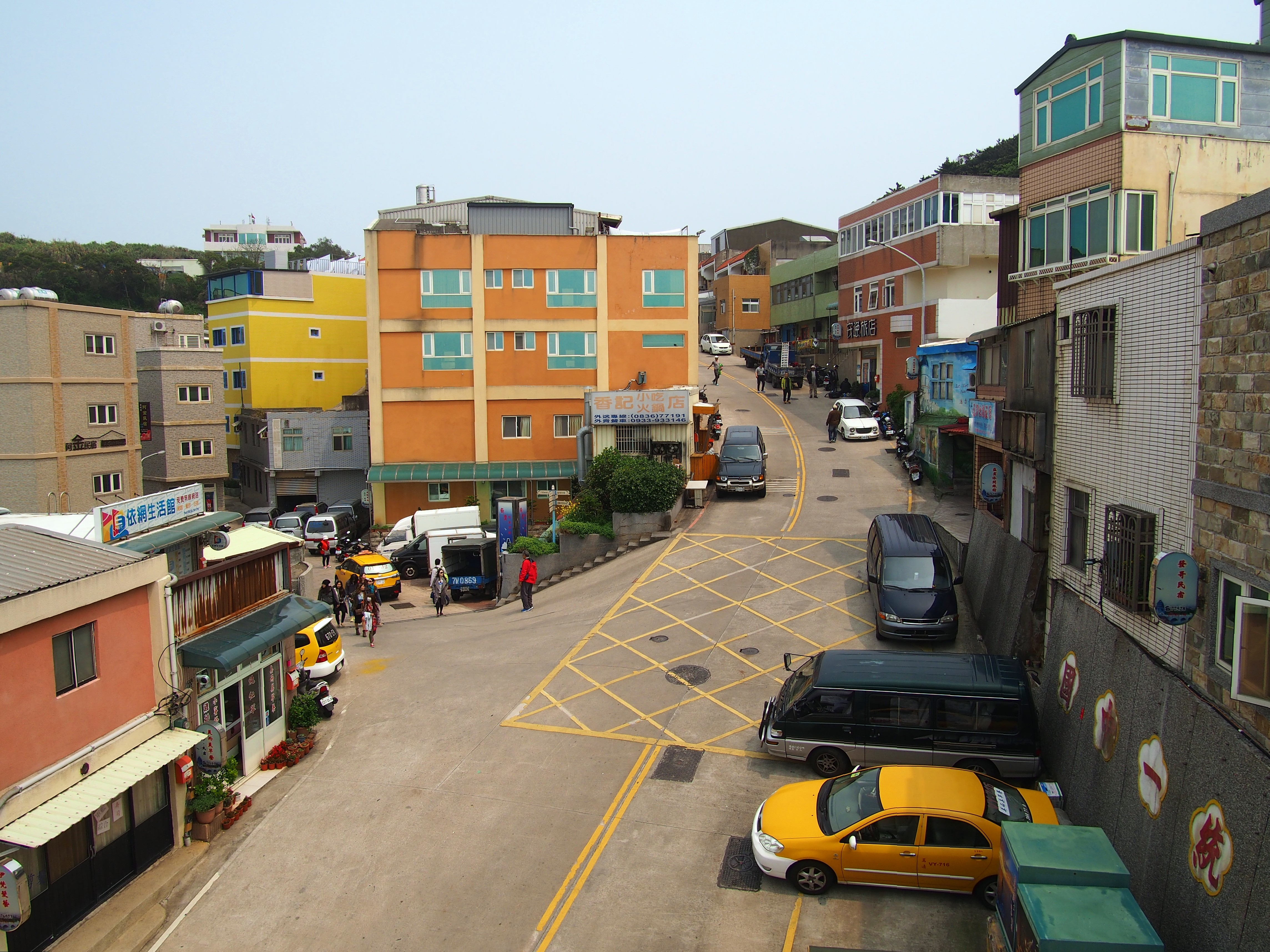 Lehua Village - 2016.04